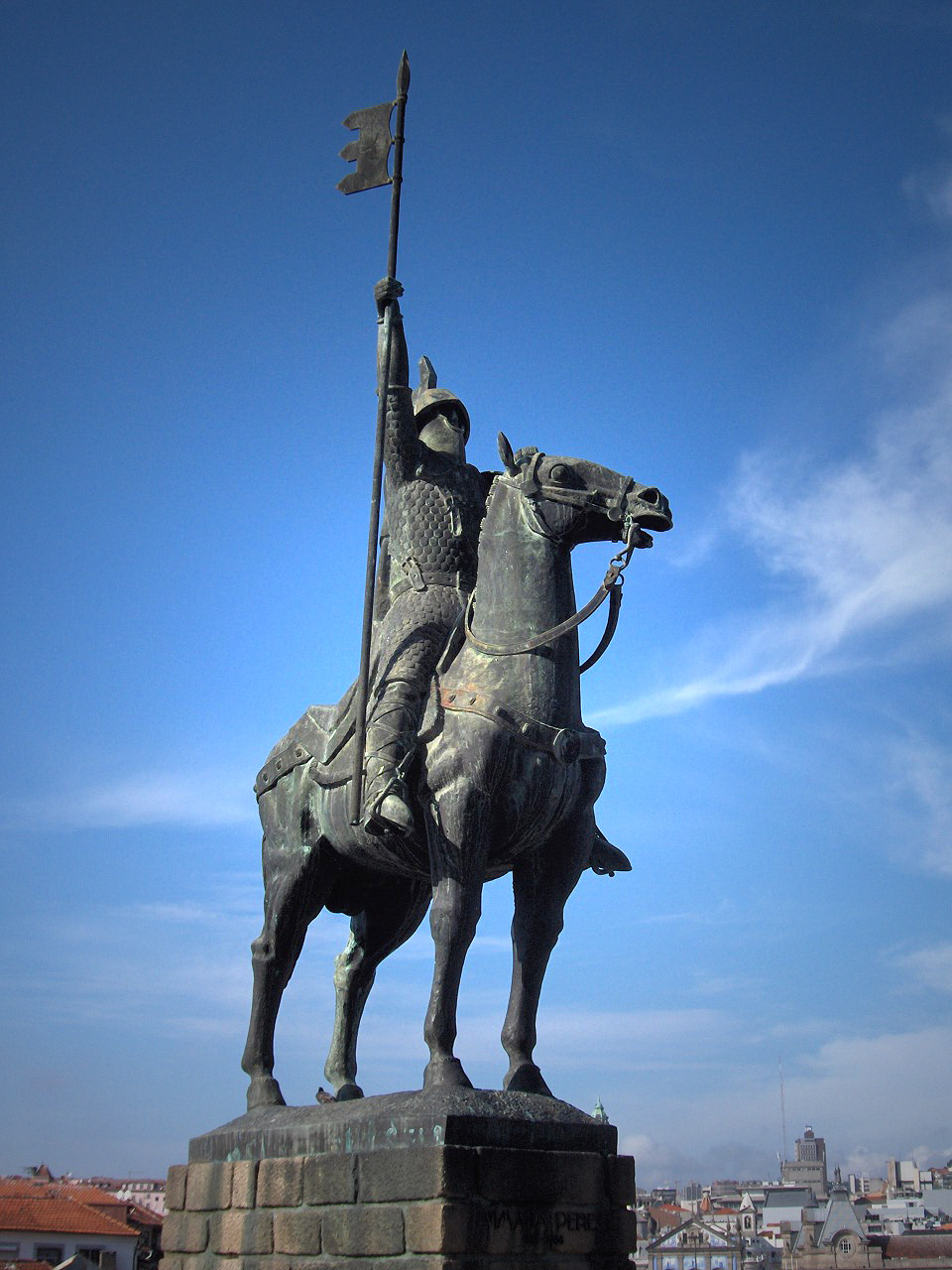 Statue of Vimara Peres (820-873) by Barata Feyo at the cathedral of Porto, Portugal